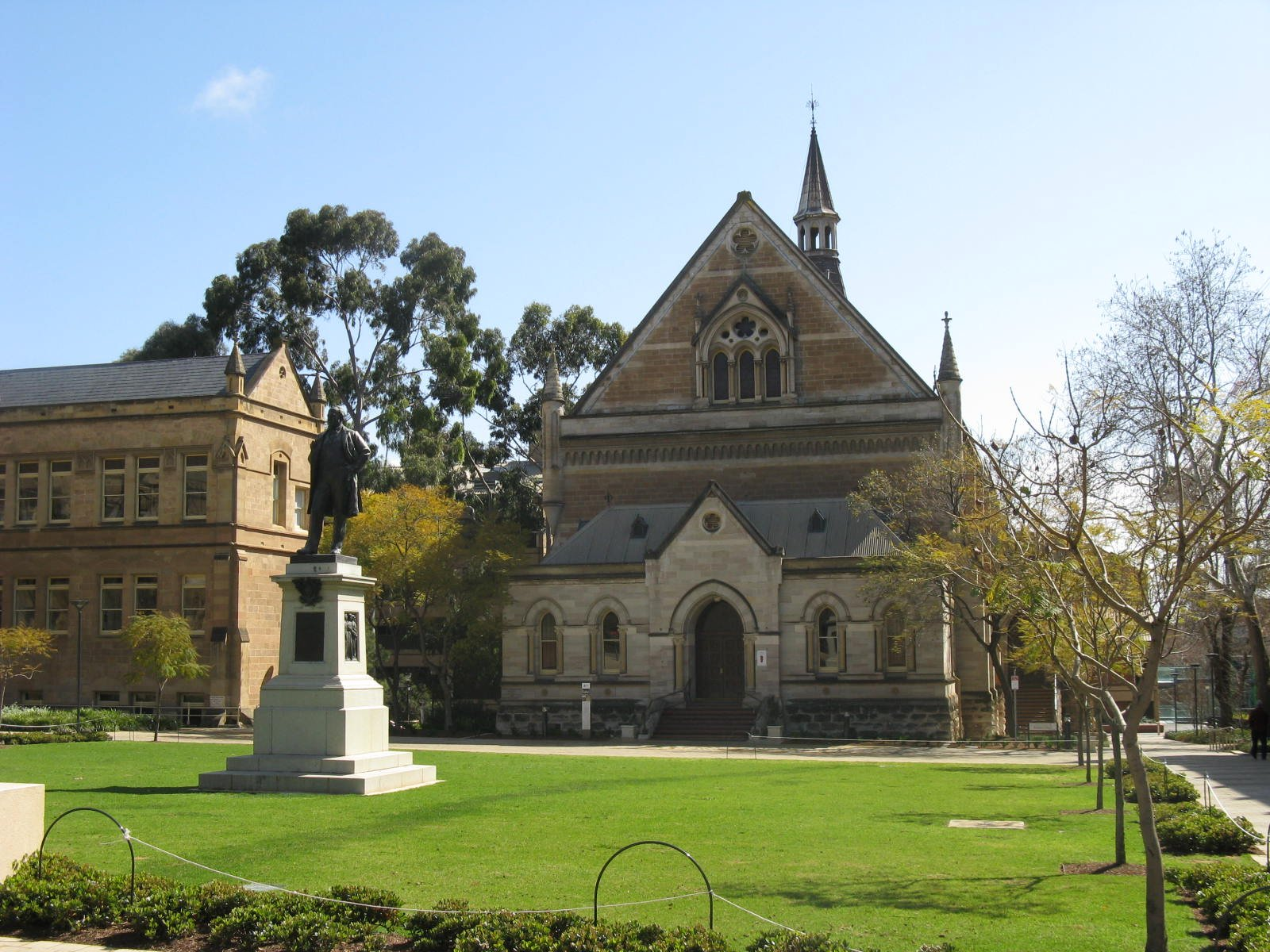 Jubilee 150 Walkway - Statue of Sir Thomas Elder in front of the Elder Conservatorium at the University of Adelaide